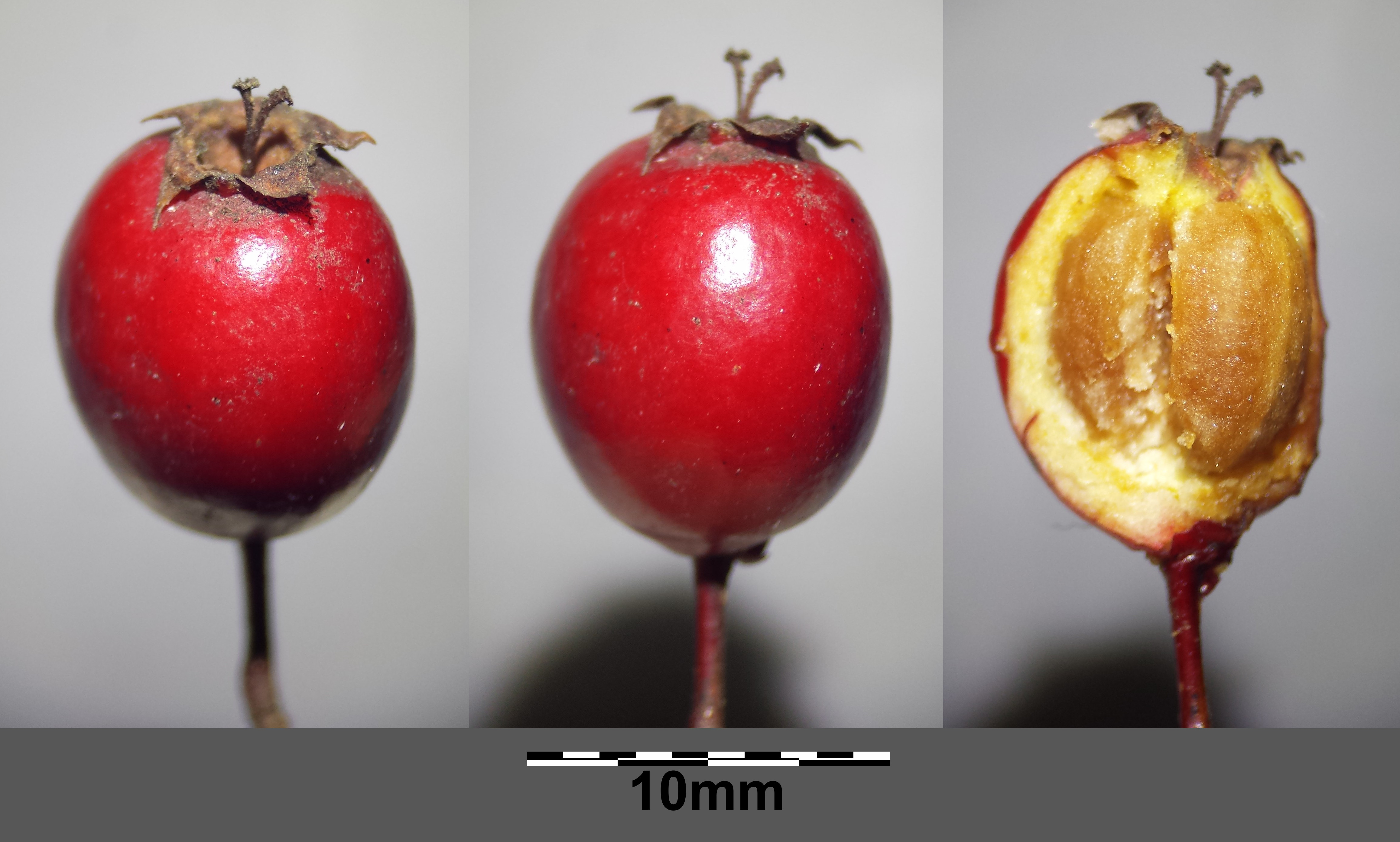 Fruit Taxonym: Crataegus laevigata (subsp. laevigata) ss Fischer et al. EfÖLS 2008 ISBN 978-3-85474-187-9 Location: Rohrwald, district Korneuburg, Lower Austria - ca. 300 m a.s.l. Habitat: Carpinion betuli